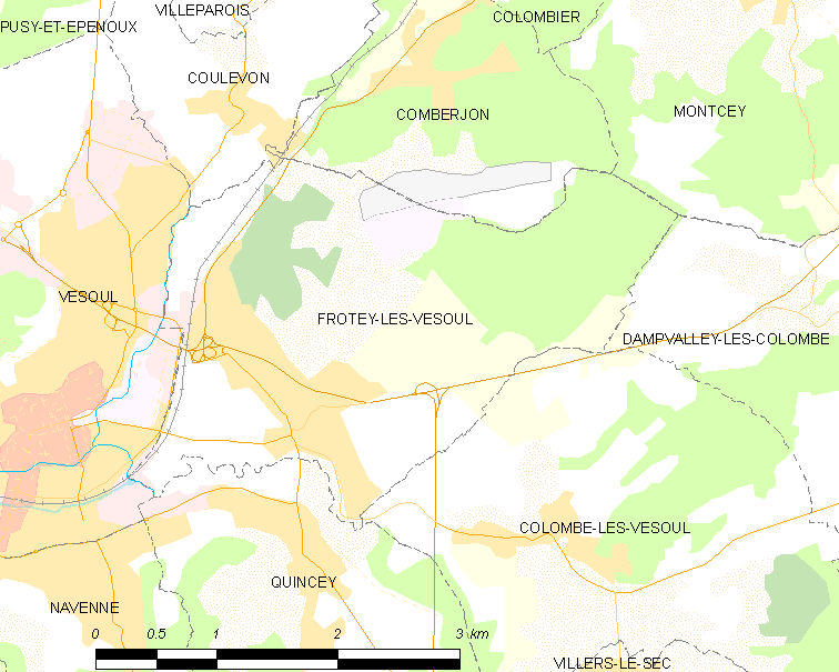 Map of French municipality